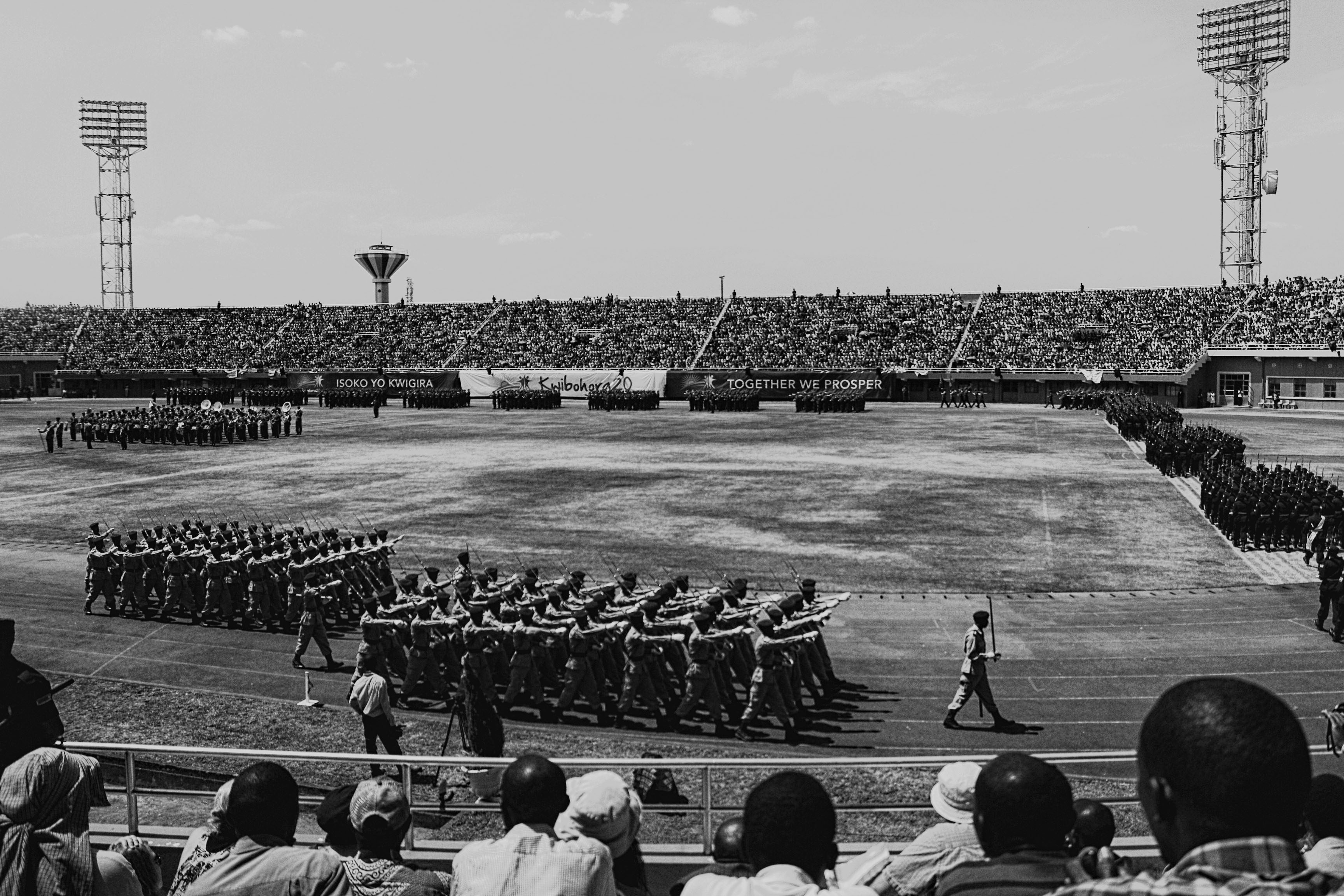 View of Amahoro Stadium in Kigali, Rwanda during the "Kwibohora" event commemorating the 20th anniversary or the Rwandan Genocide.